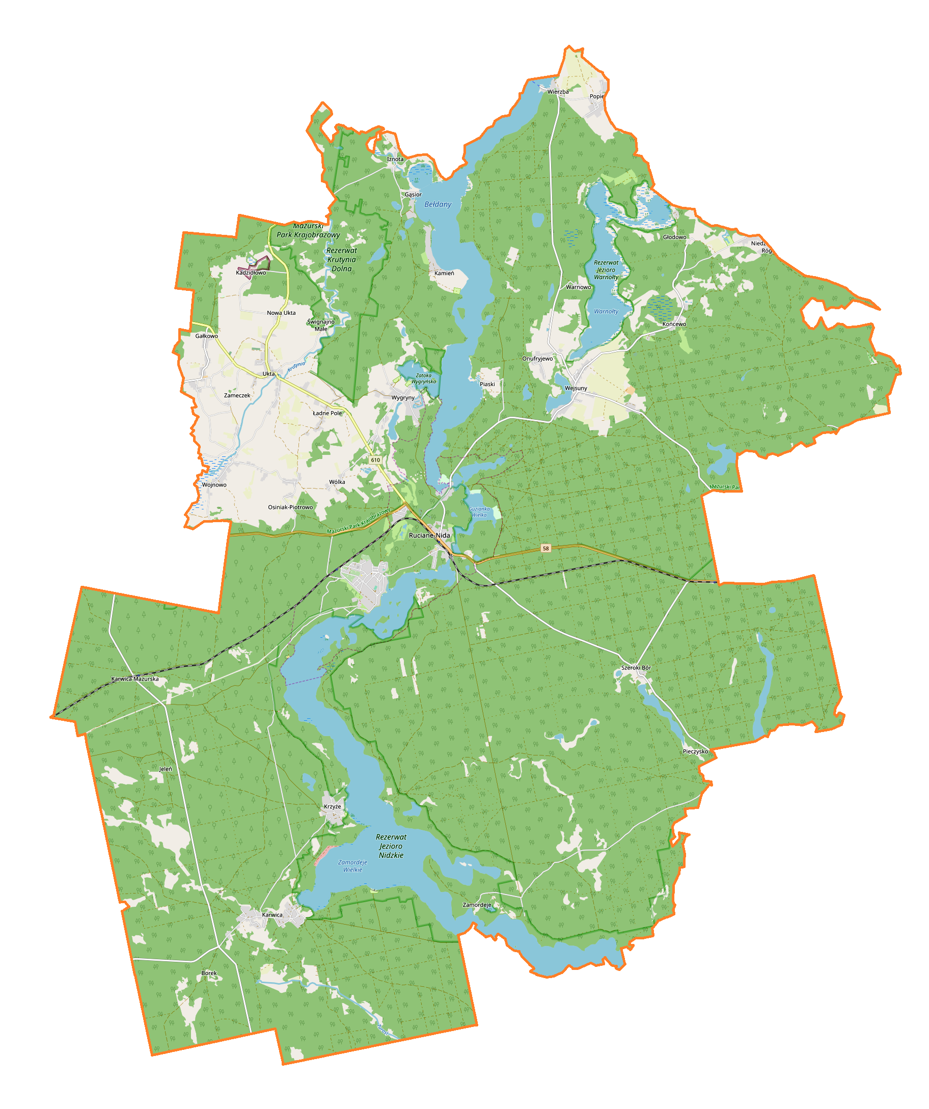 Location map